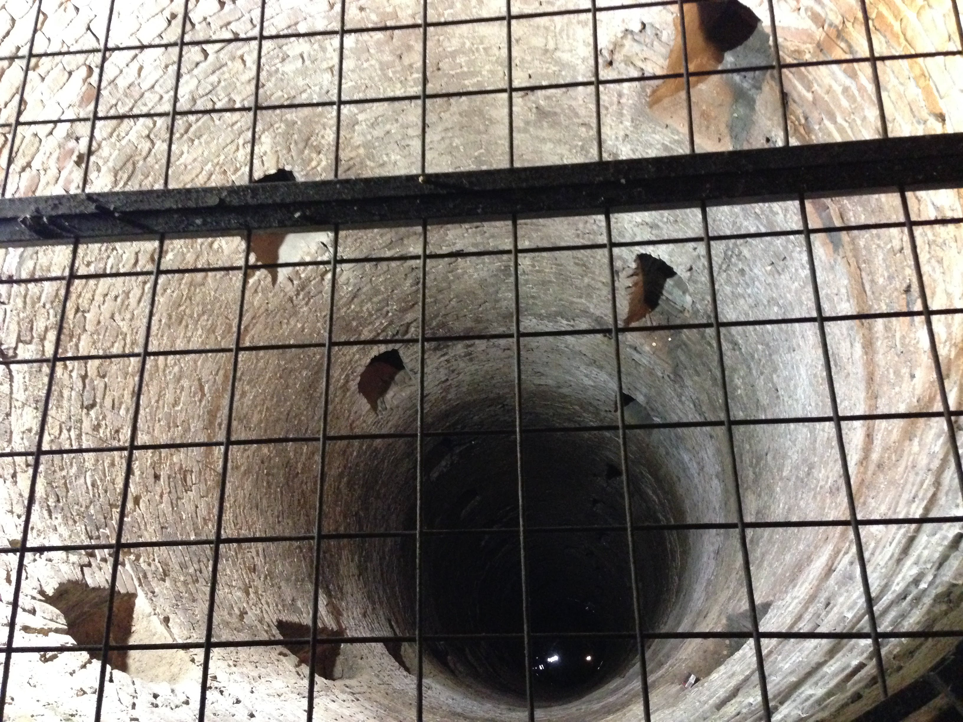 Roman Well, Kalemegdan, Belgrade fortress, Serbia